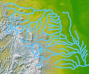 Chugwater Creek in Wyoming © 2004 Matthew Trump